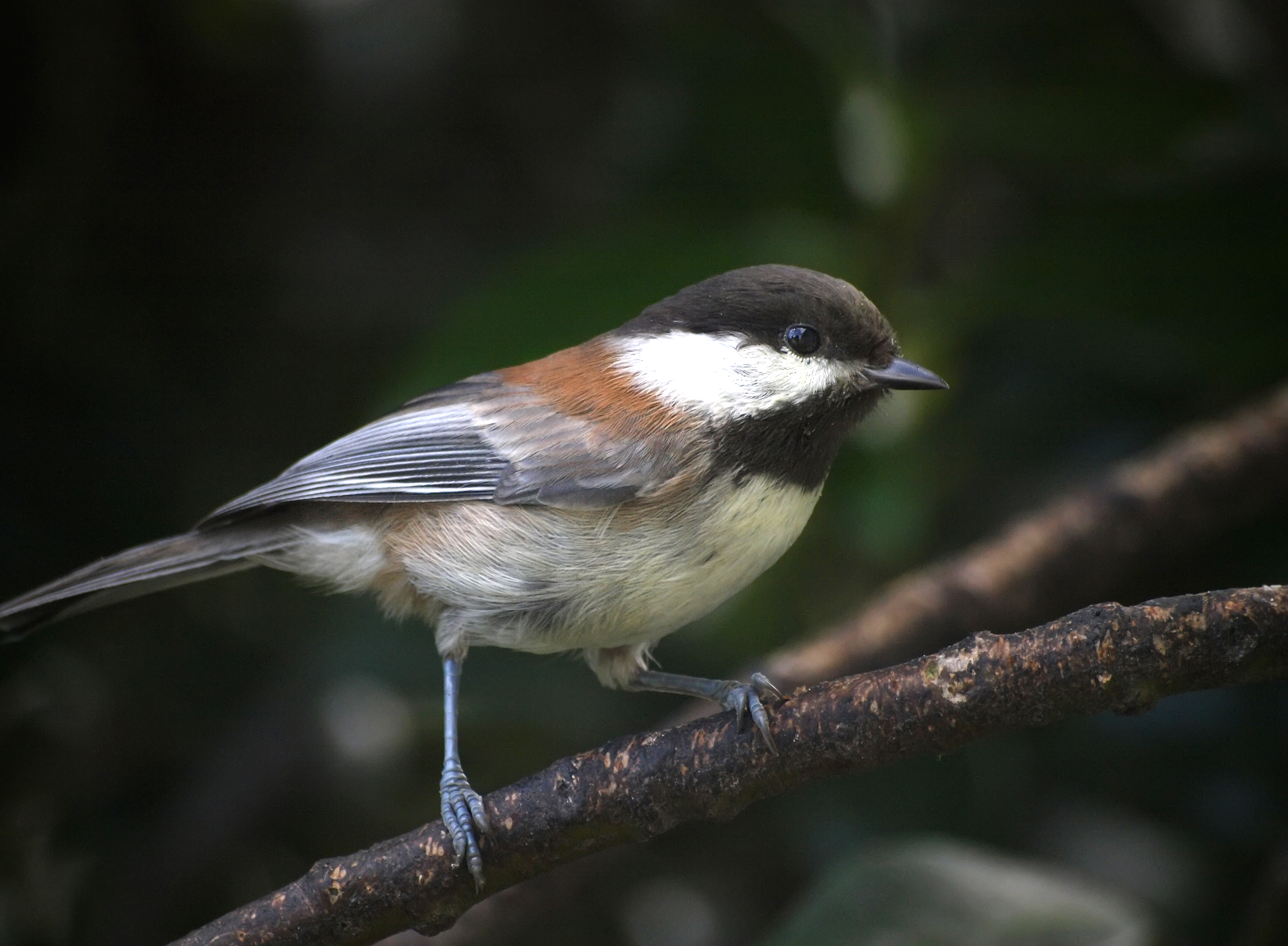 Poecile rufescens, San Francisco, California